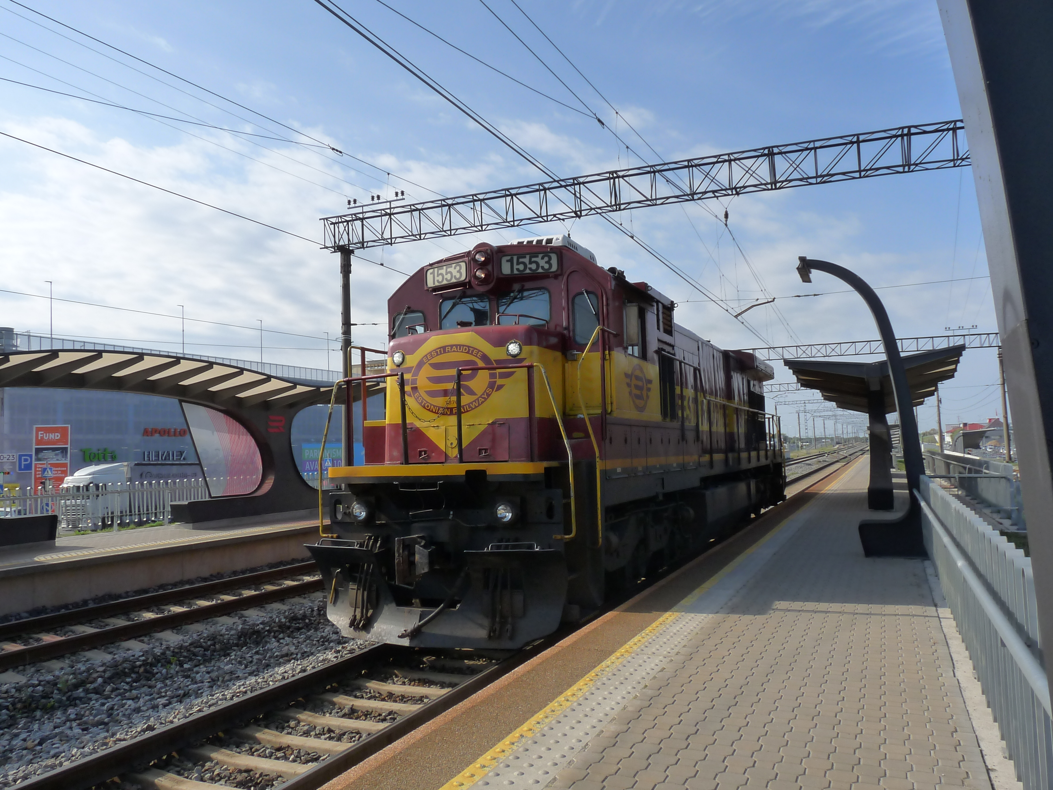 GE locomotive in Tallinn, Estonia